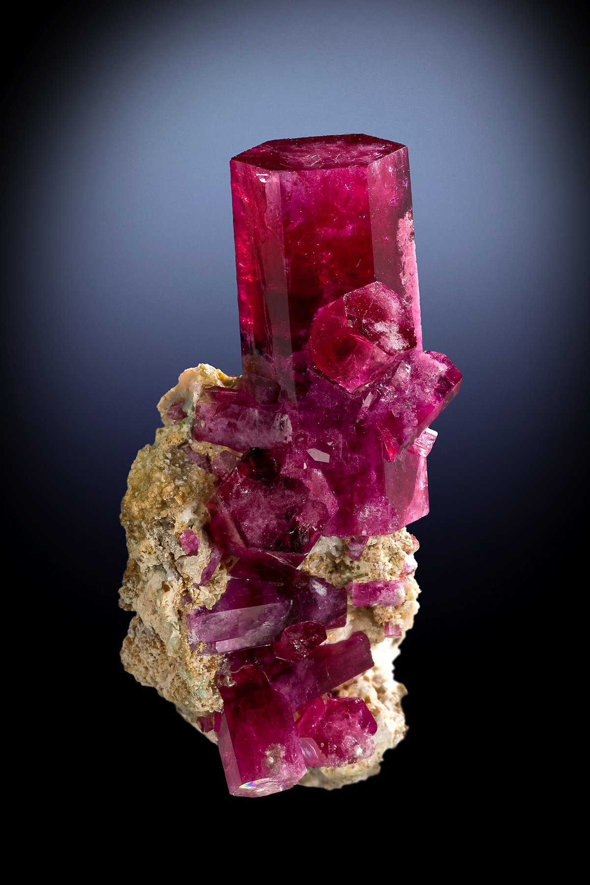 Antimony, Beryl Locality: Harris Claim, Wah Wah Mountans, Utah Size: small cabinet, 6 x 2.7 x 2.6 cm Red Beryl This is a superb red beryl specimen. It is considered by many to be one of the finest and most unique American mineral specimens in existence. It was mined and sold directly to prominent collector F. John Barlow in the early 1990s (and is listed in his book, page 357, as the world's foremost example of the species). He had a core suite of 14 remarkable specimens of which this was the most important, and spent a fortune keeping on top of the finds here to have the best assemblage possible from this unique site. The locality is currently defunct but until recently was attracting the attention of gemstone giants like Tiffany's for its novel mineral. This particular piece is featured prominently in many media, including the F. John Barlow Collection Book, Lapis special issues on beryls, and probably any other work that references red beryl. Although it "disappeared" briefly and could not make the American Mineral Treasures exhibition in Tucson in 2008, it well should have been in that compendium case. However, the photo was still chosen as the lead specimen for the Red Beryl chapter of the companion book to that monumental exhibition, and is shown full-page on page 217 of American Mineral Treasures. The crystal is 2 inches.